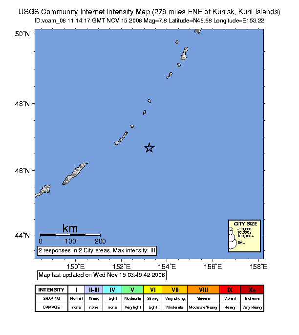 Location of the earthquake Magnitude 7.8 - KURIL ISLANDS 2006 November 15 11:14:16 UTC(Vcam 06 ciim)